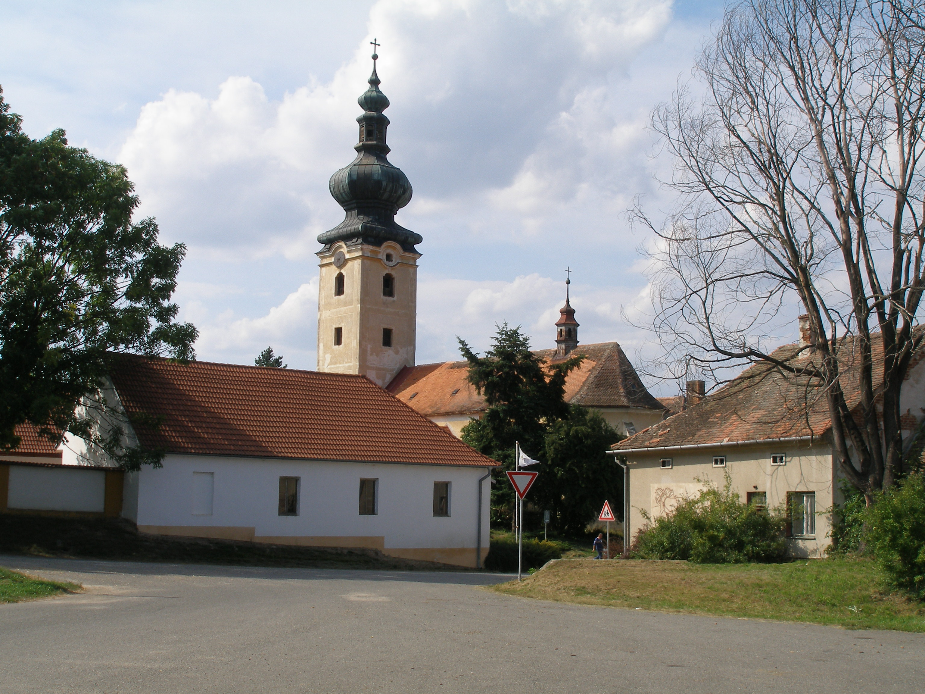 Dešná (Jindřichův Hradec district) - South-Eastern view of the church